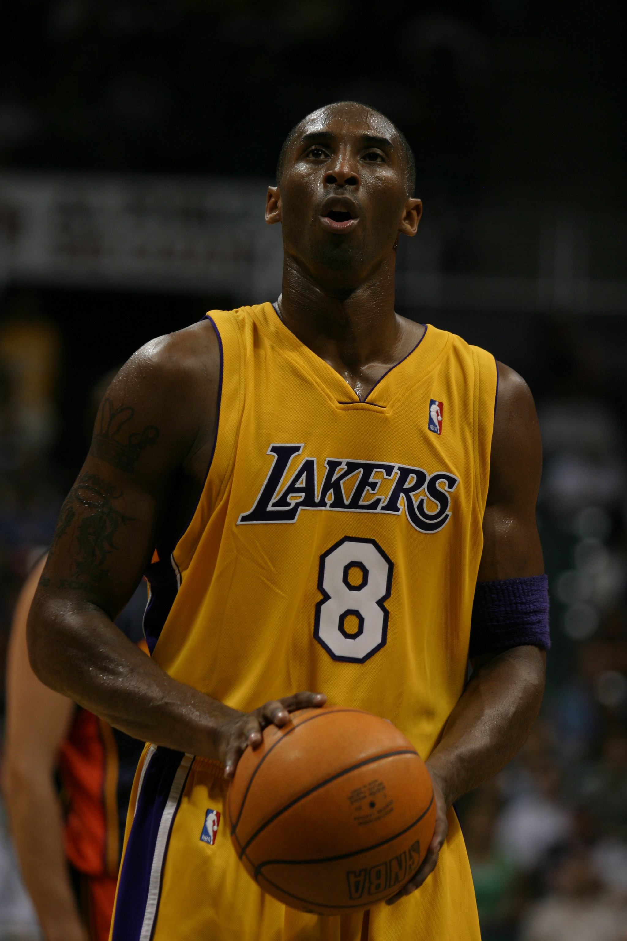 Kobe Bryant, Lakers shooting guard, stands ready to shoot a free throw during Tuesday nights pre-season game against the Golden State Warriors. Bryant was essential in bringing together a large point gap late in the second quarter, after the Warriors took the early lead.